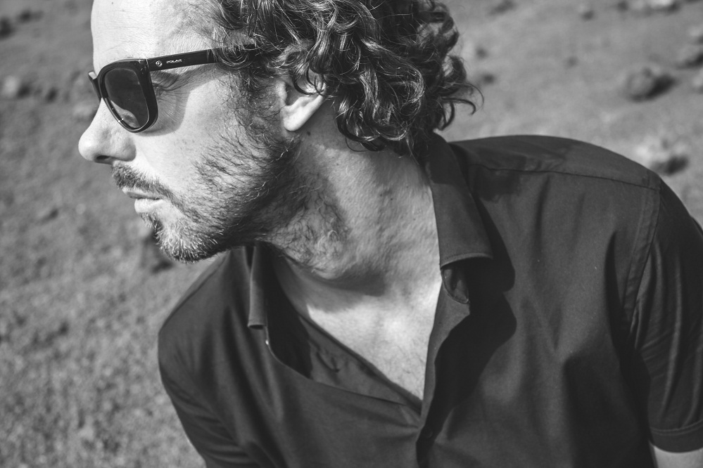 foto promocional